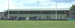 Image of Victoria Park, Buckie, by Graeme McGinty.